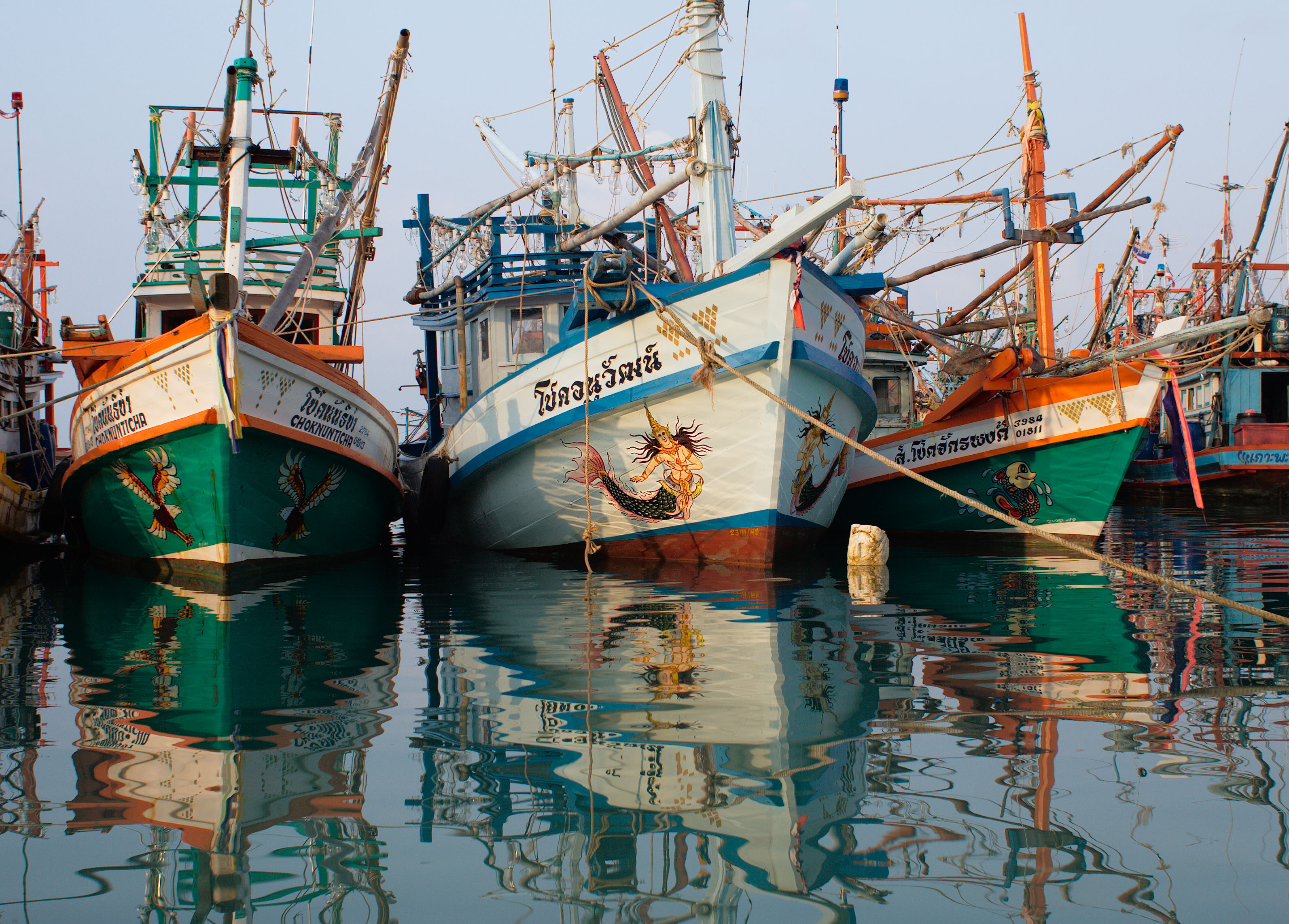 The fishing fleet at Sri Thanu beach, Ko Pha Ngan, Thailand